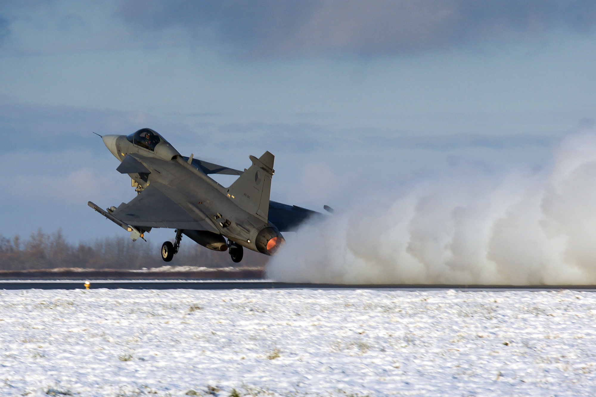 Czech Air Force Saab JAS-39 Gripen taking off